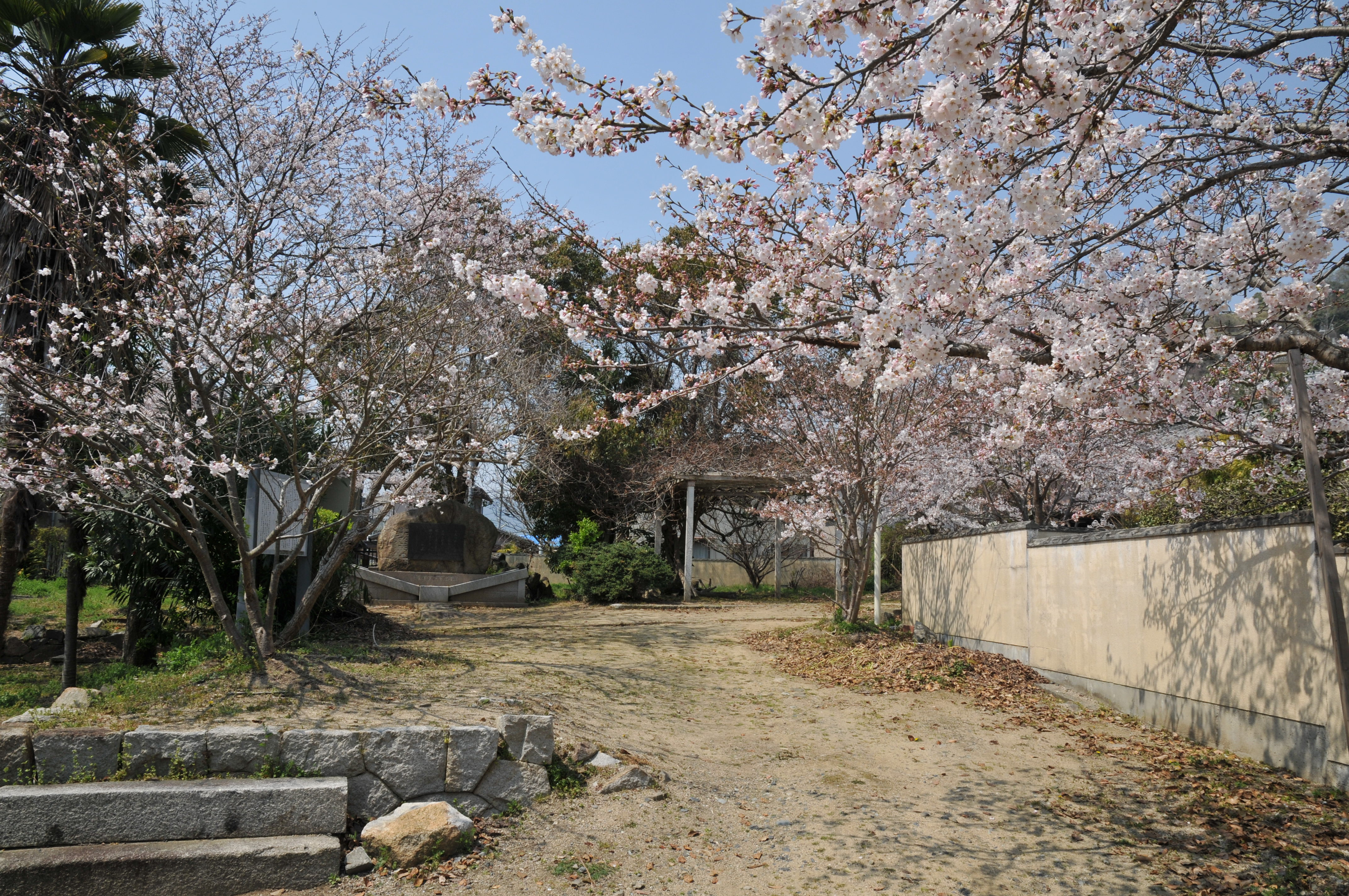 the site of Masamune Hakucho's parents' home